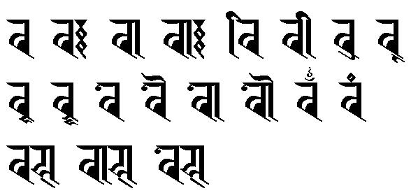 This is another example of Vowel diacritic of Ranjana script.